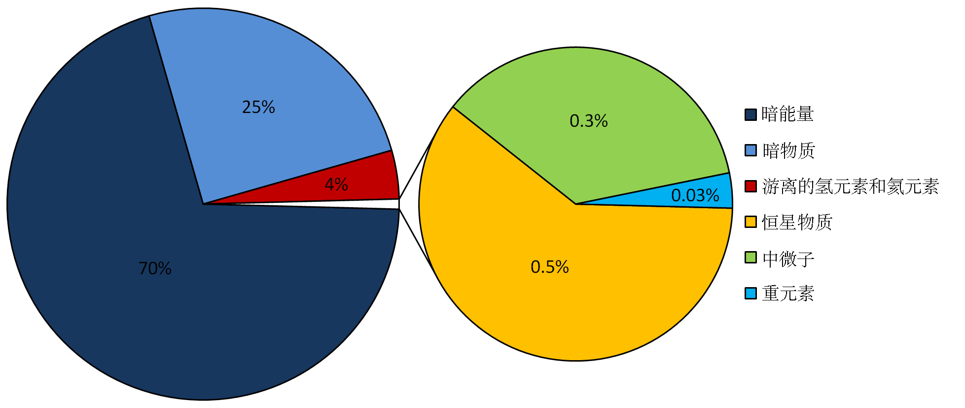 Chinese version of File:Cosmological Composition - Pie Chart.png